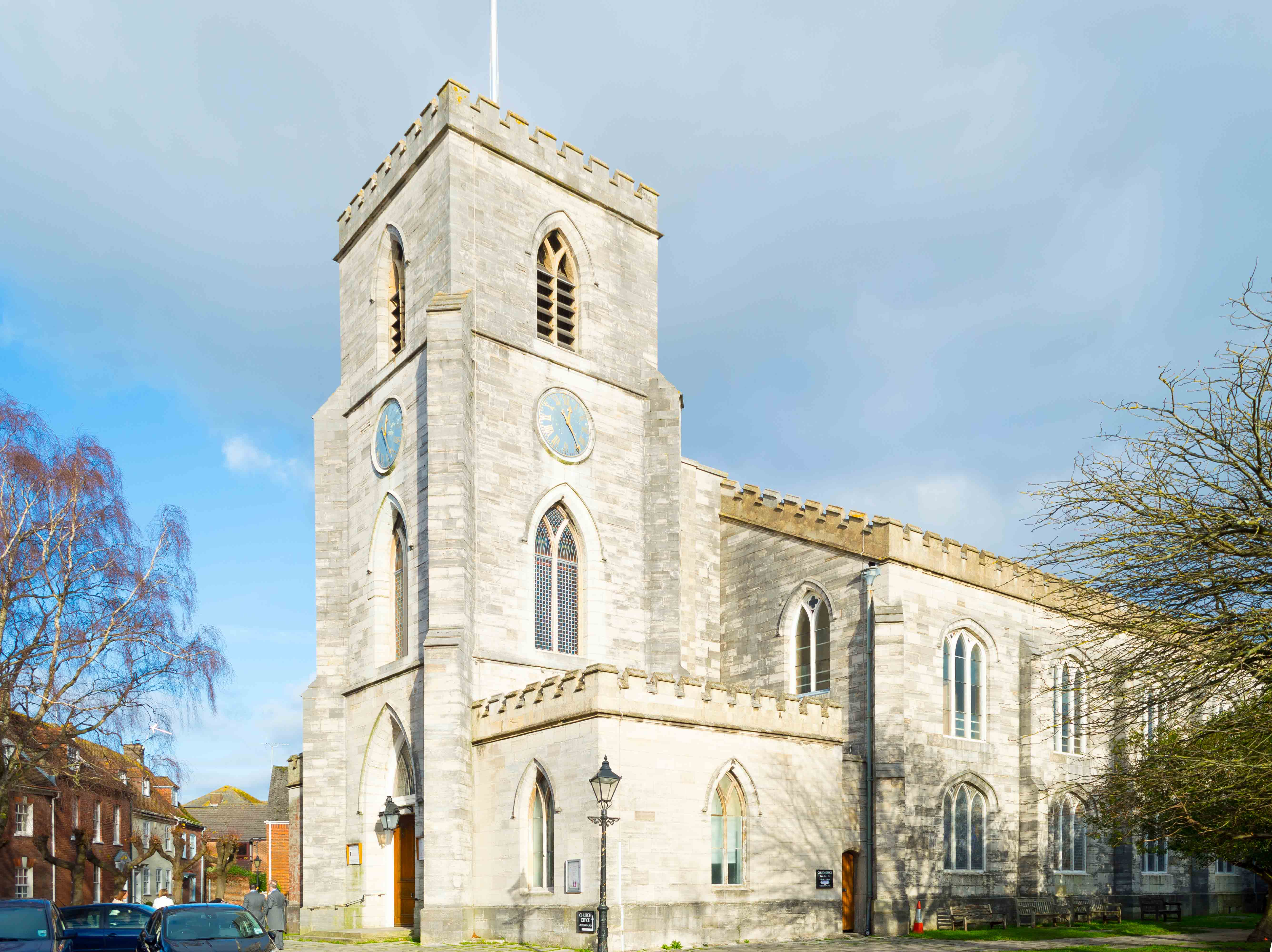 The magnificent Georgian church in Poole.